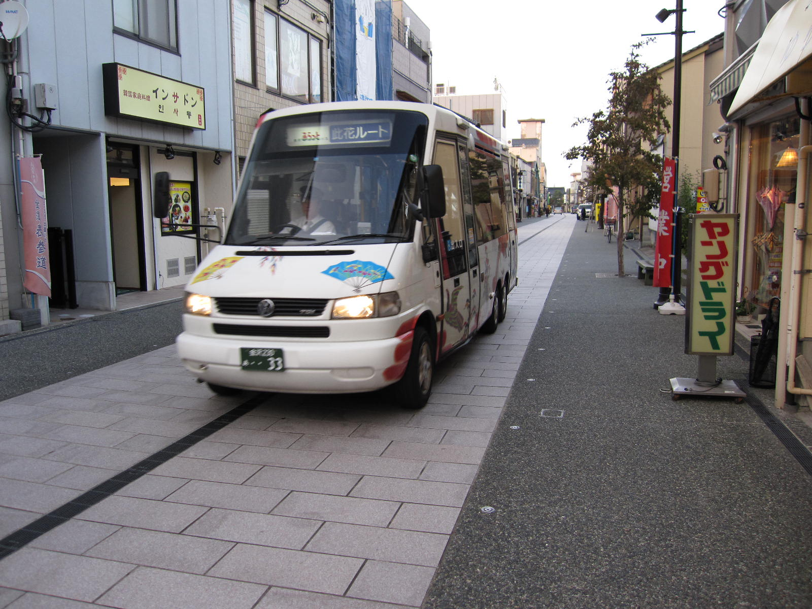 Transit Mall in Kanazawa Japan